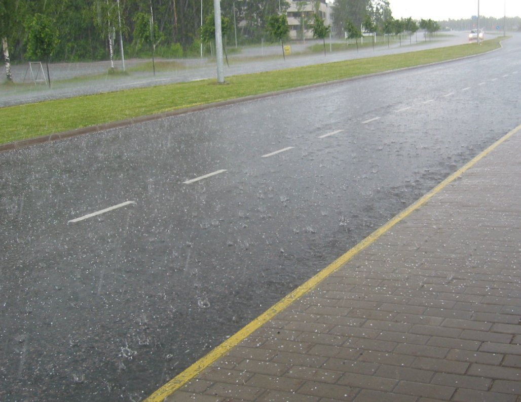 Hailstorm in Finland